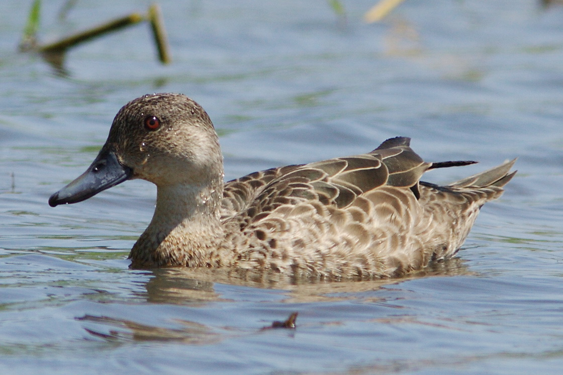 Grey Teal, Anas gracilis; wild bird.